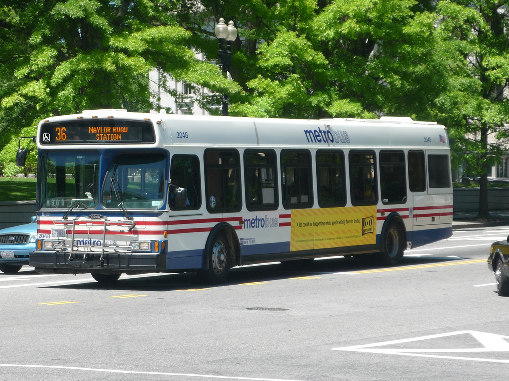 One of the 100 Orion VI in service with Metrobus on a downtown route.